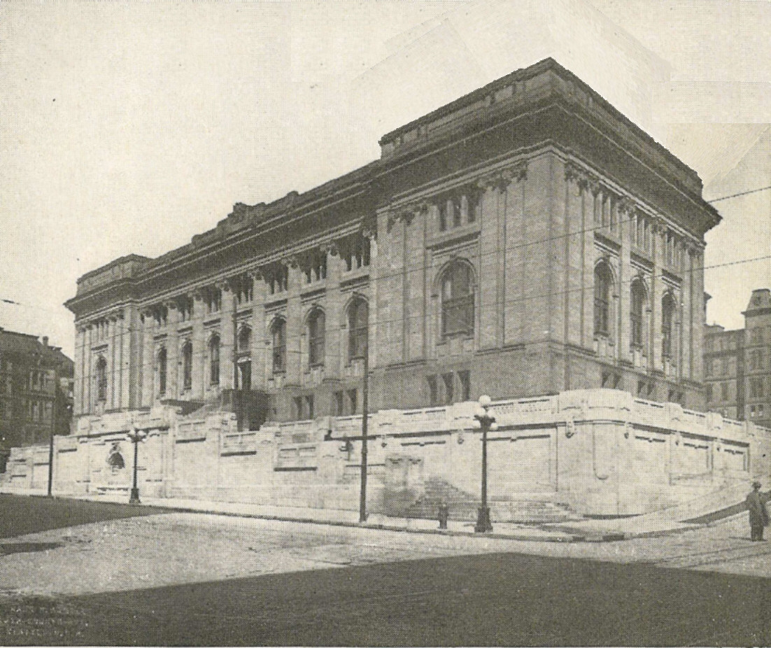 Description in the published source (1919): "Seattle Public Library". The old Carnegie Library in downtown Seattle, on the same site as the present Seattle Central Library (between 4th and 5th Avenues and between Madison and Spring Street. (Another library was there in between.) In the background at right, across 5th Avenue is the old Providence Hospital, on the site now occupied by the (old!) Federal Courthouse. Sky at upper right is heavily retouched, because this part of the picture was cut off in the original layout.